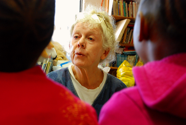 Sue Duncan teaches kids at the Sue Duncan Children Center on the South Side of Chicago. She is the mother of current United States Secretary of Education Arne Duncan under President Barack Obama's administration. She started the children's center in 1961.